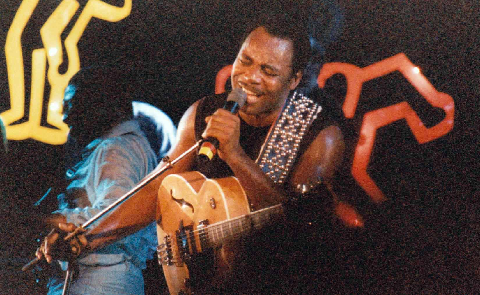 Georges Benson in 1986 at Montreux Jazz Festival.